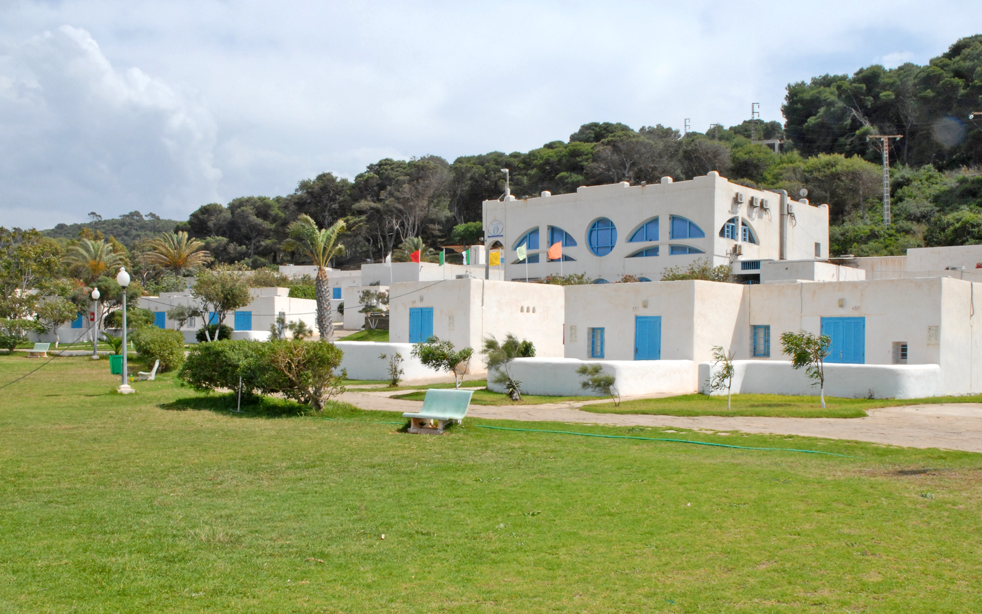 Le centre touristique de la Corne dor — on the Mediterranean in Tipaza, Algeria. Center for study and education regarding the Golden Horn (Corne dor).